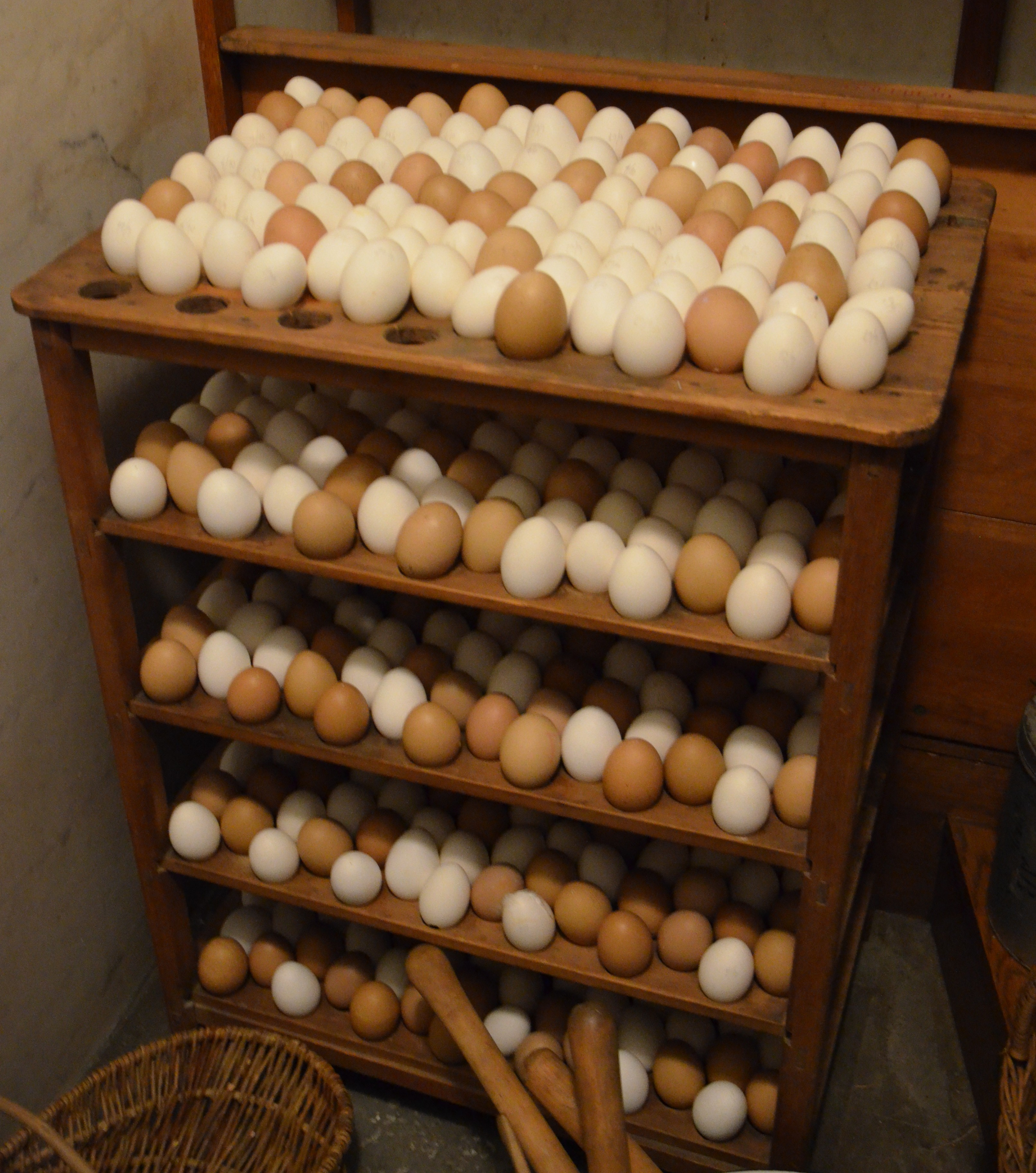 A rack for storing a large number of eggs in the kitchen of a town residence of an affluent family in Stockholm, Sweden, at the early 20th Century. Inventory number: III:I:G.k.01. Text in the museum database: "Av furu. Rektangulärt, med hörnstolpar och fem hyllor. Stolpar fyrsidiga, med rundat ytterhörn, mellan dem på vardera kortsidan fem kantställda slåar för hyllorna, intappade i hörnstolparna. Hyllorna med i rader ställda hål för äggen. Höjd: 81 cm.; längd: 63 cm.; bredd: 41,3 cm." Photo taken at the kitchen pantry at the Hallwyl museum in Stockholm.